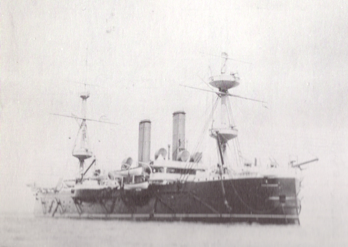 British central battery ironclad HMS Sultan sometime after her 1893-1896 reconstruction